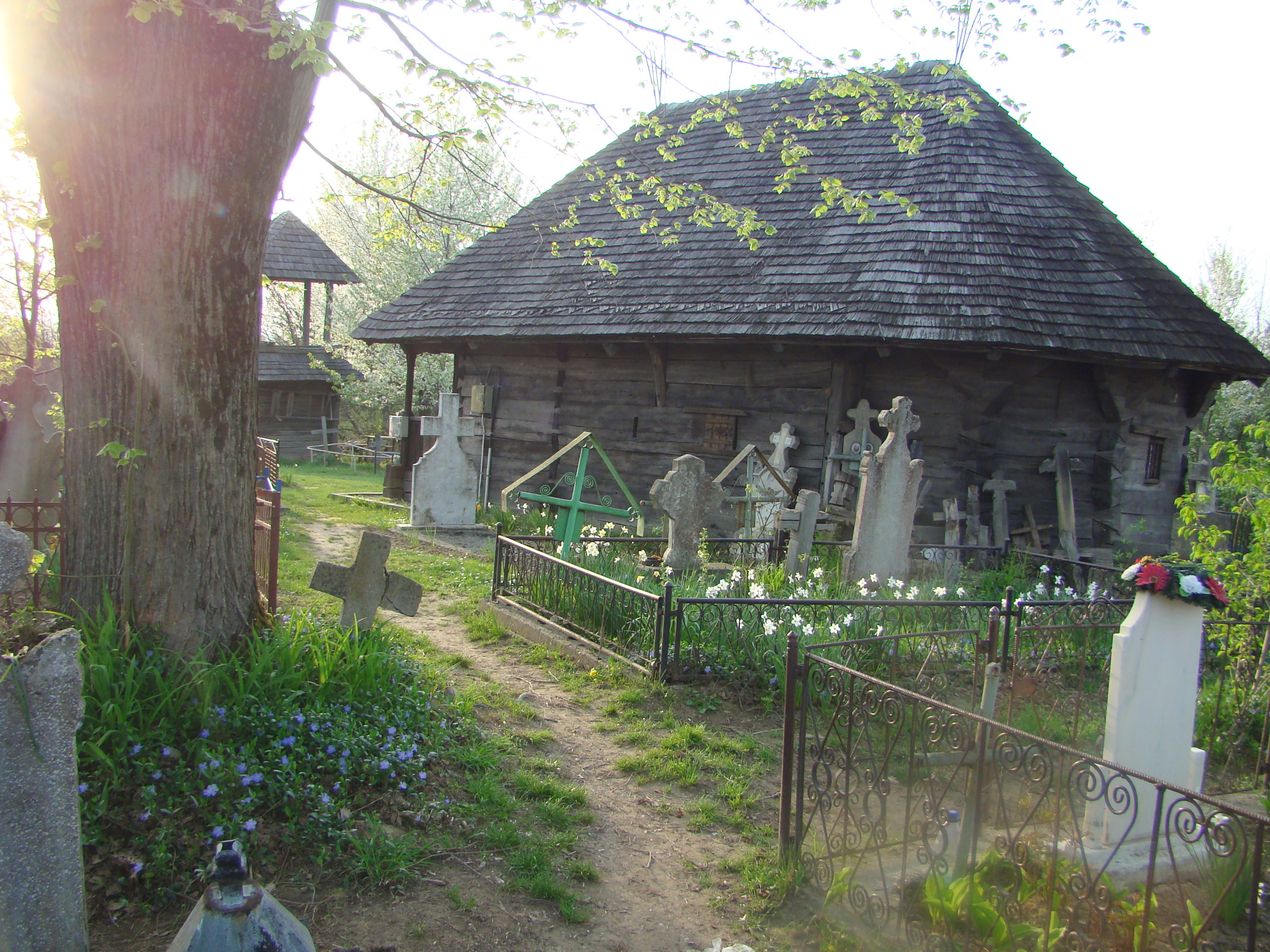 St. Basil's wooden church in Pieptani, Gorj county, Romania